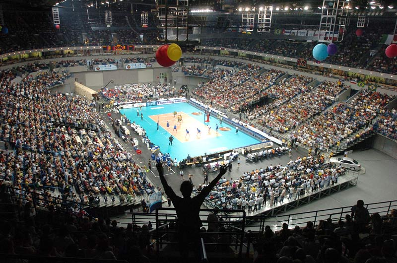 FIVB World League final game - Brazil vs. Serbia and Montenegro, July 10, 2005 with 18,140 spectators in the stands - the first sold out event in the Arena. Seats on Level 100 East and Level 100 West are missing due to organizer's prediction that venue will not be sold out - a bad call, as can be seen from the photo.